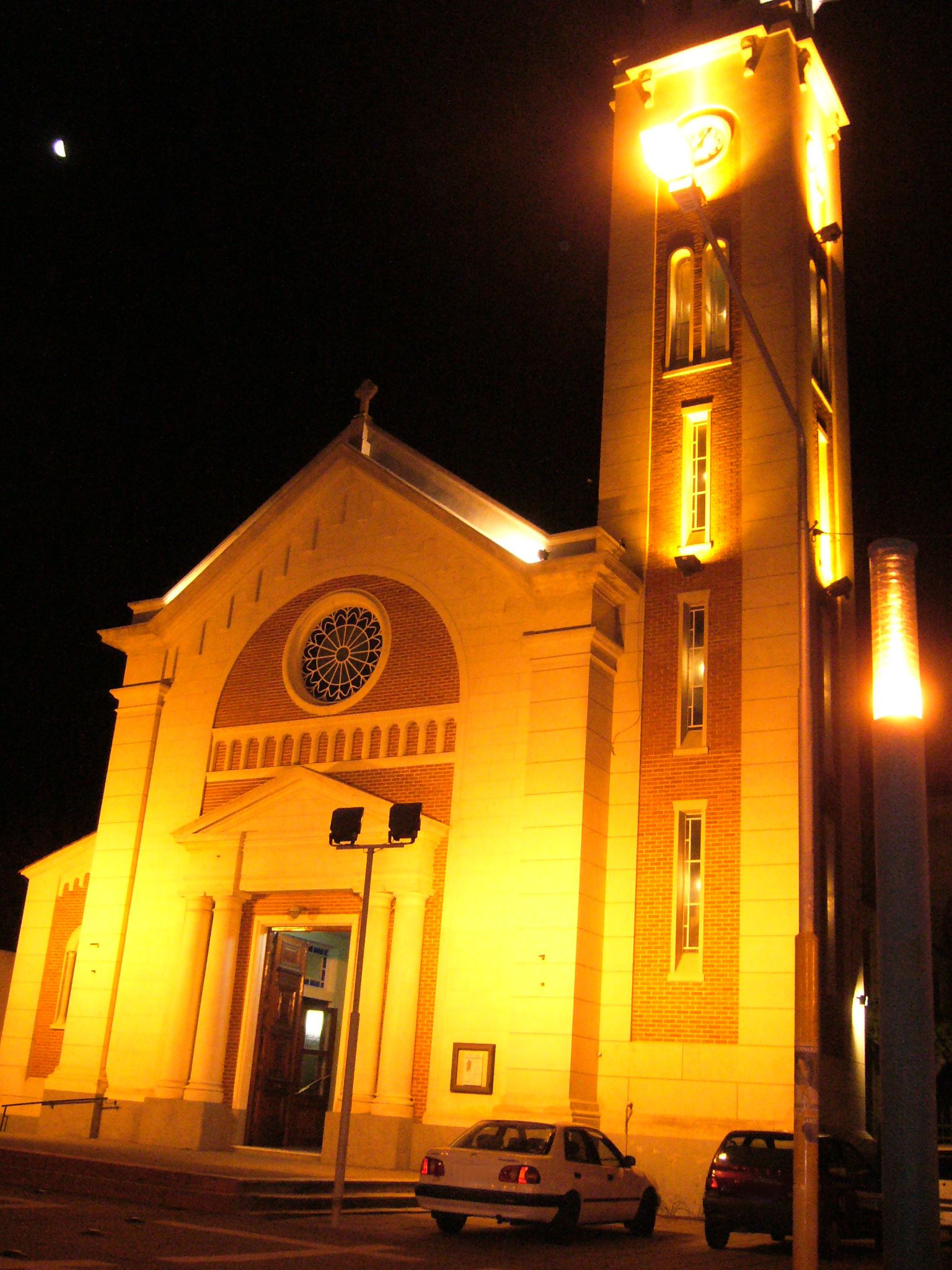 Church of Our Lady of Mercy, in General Pico, La Pampa Province, Argentina.